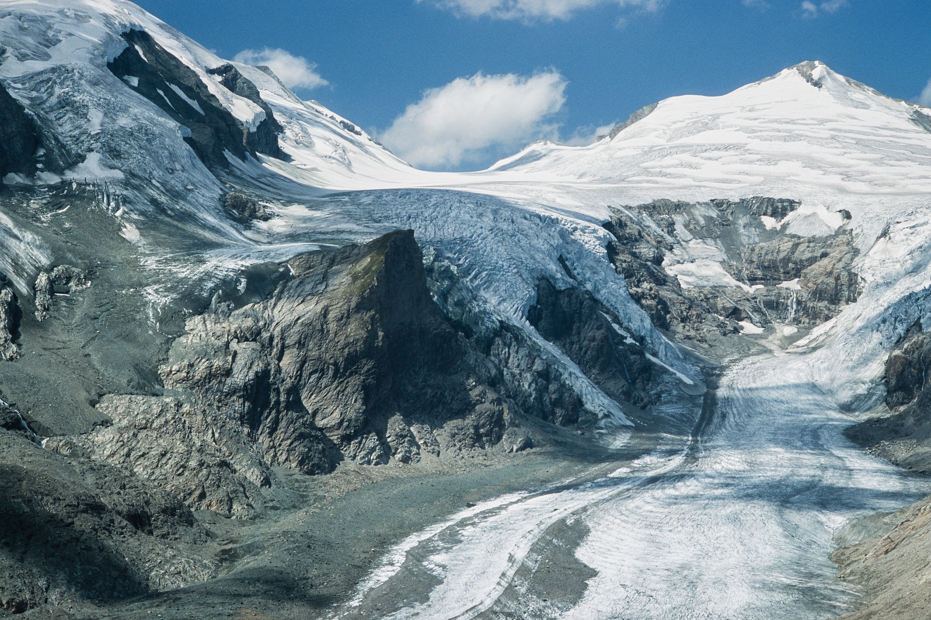 Grossglockner Glacier